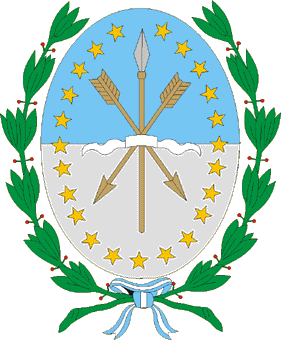 Coat of Arms of Santa Fe Province, Argentina.